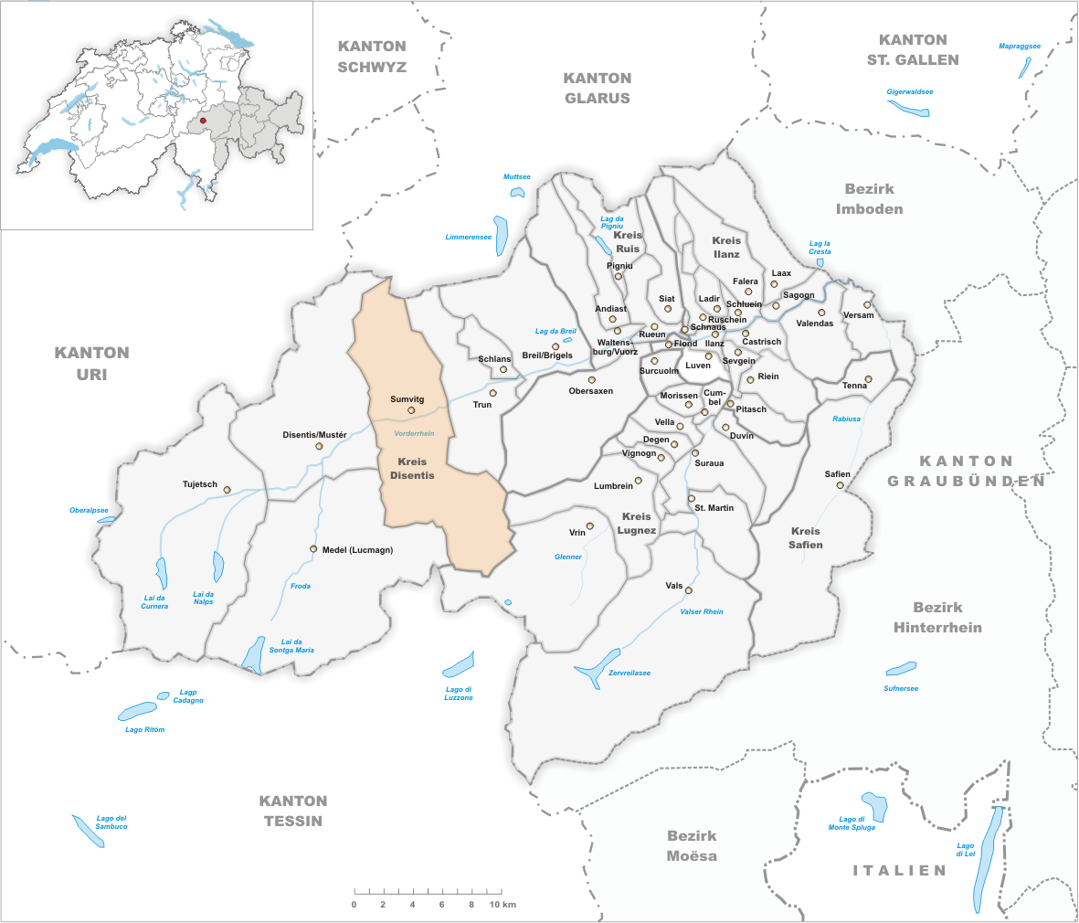 Municipality Sumvitg